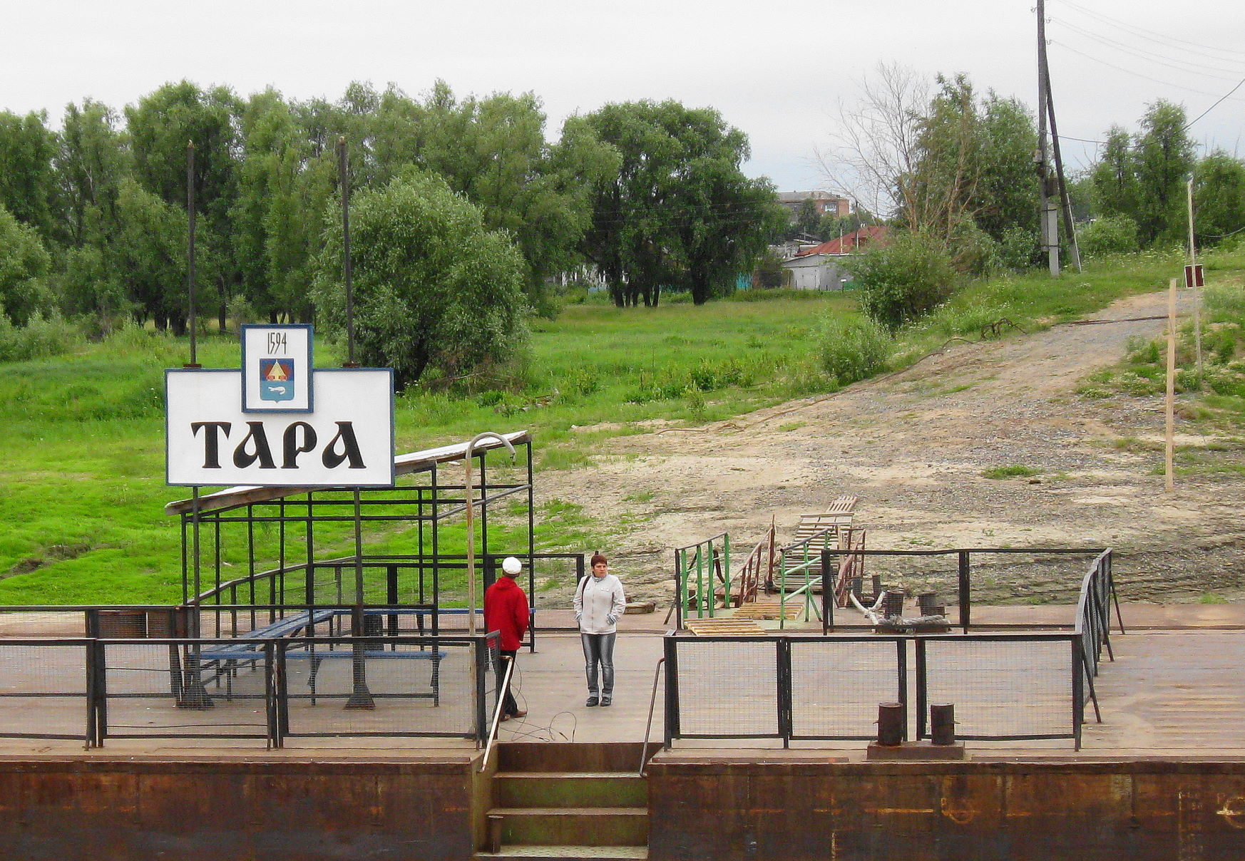 Tara Wharf on Irtysh river and meeting people. Tara, Omsk region, Russia.